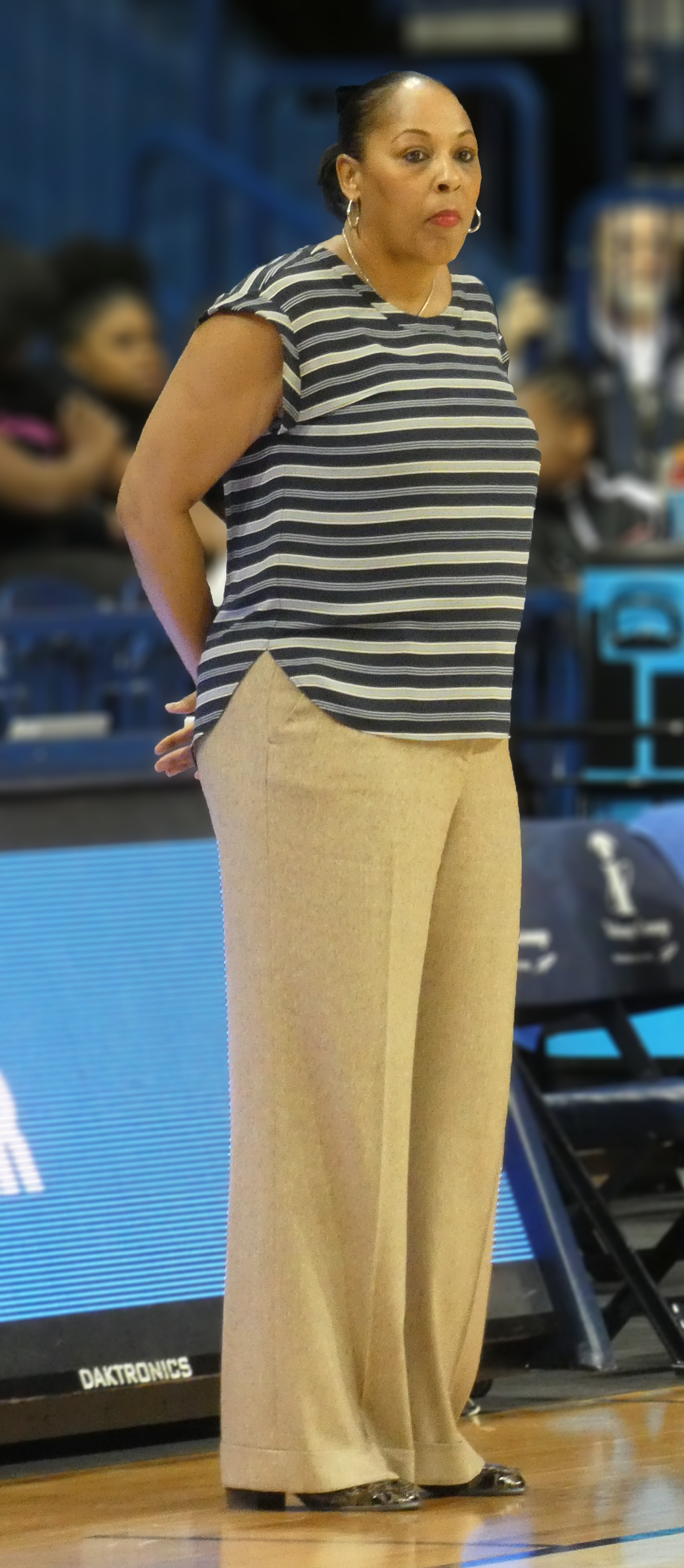 Felisha Legette-Jack, head coach for the Buffalo Bulls Women's Basketball team.